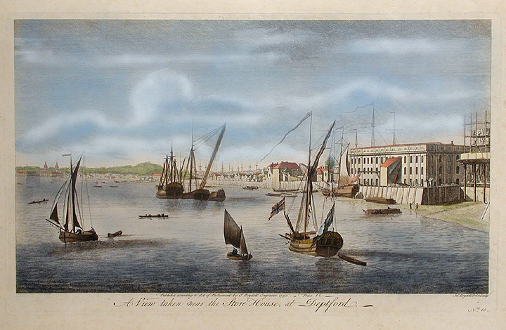 "A View taken near the Store House at Deptford". London: Published by J. Boydell, 1750. Hand-coloured engraving, printed on laid paper. Very good condition apart from some overall light soiling, minor foxing, and a few small tears in the right and bottom margins. Slight discolouration of the paper due to age. Bottom of sheet slightly trimmed. 10 3/8 x 16 7/8 inches. 14 x 19 3/8 inches. Deptford was the site of the first Royal Dockyard, established by Henry VIII. For much of the period during which England ruled the waves, her ships were built at Deptford.